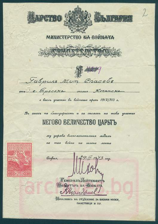 Gavril_Spasov's MAVC Medal Certificate